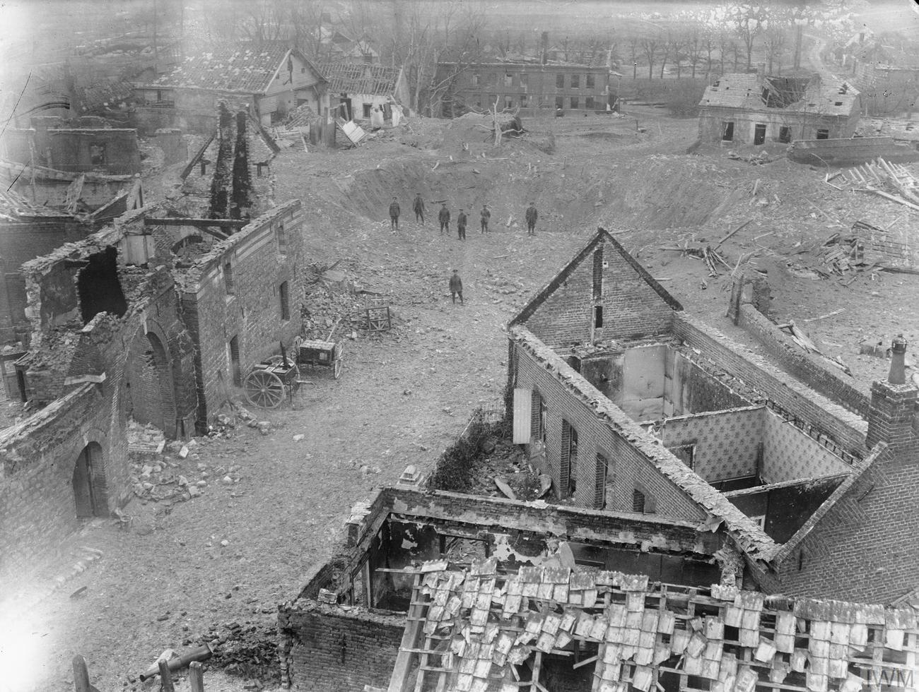 German Withdrawal to the Hindenburg Line. The ruined village of Athies, Pas-de-Calais, showing the mine crater intended to impede traffic. Athies was taken 9th April 1917.